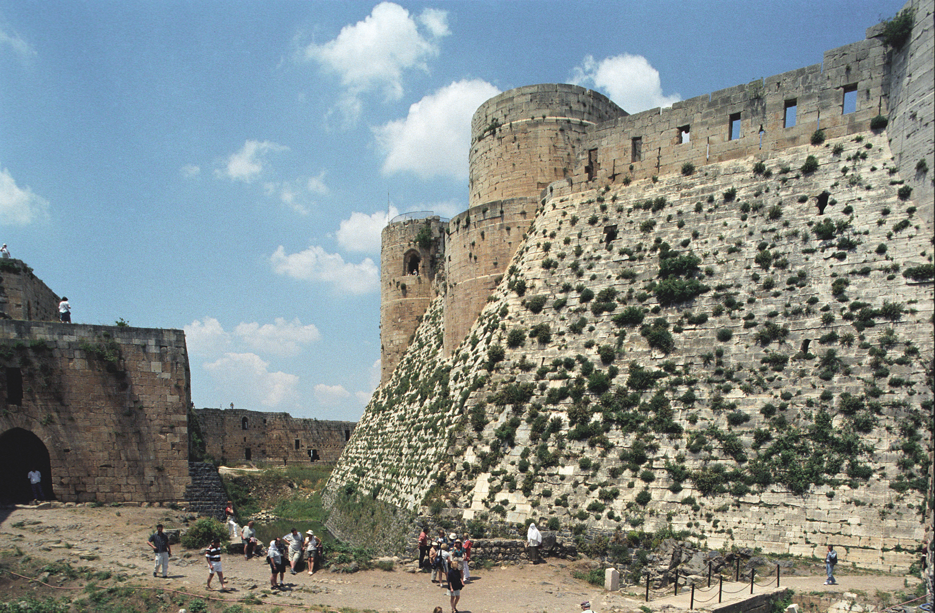 Krak des Chevaliers, the upper castle